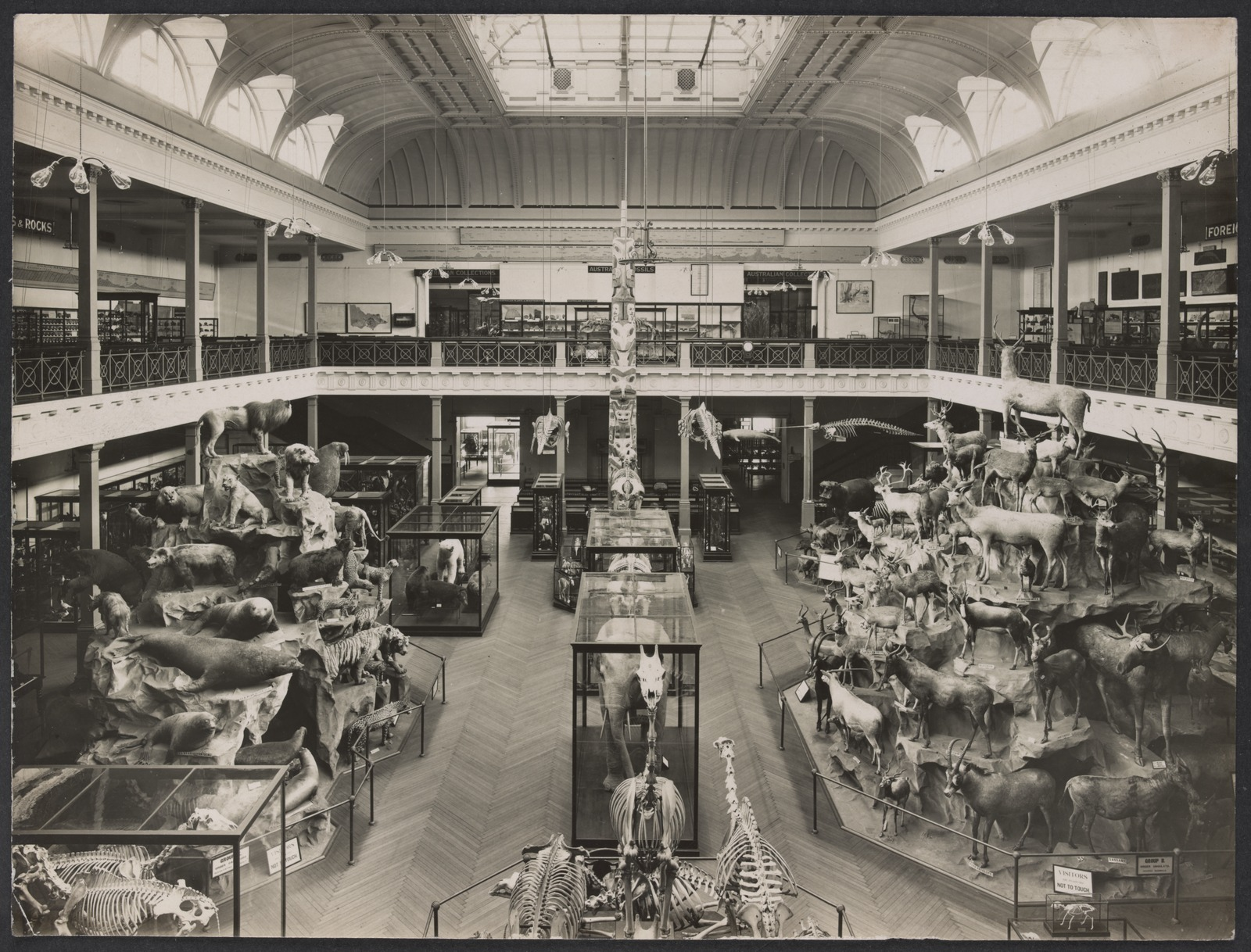 Elevated view of McCoy Hall (later Redmond Barry Reading Room, State Library of Victoria) showing stuffed animals and animal skeletons in glass cases. Glass cabinets and other exhibits on balcony around room.